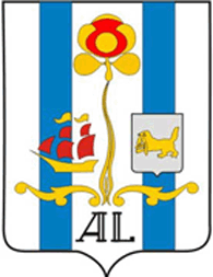 Shelehov (Irkutsk oblast, Russia), coat of arms